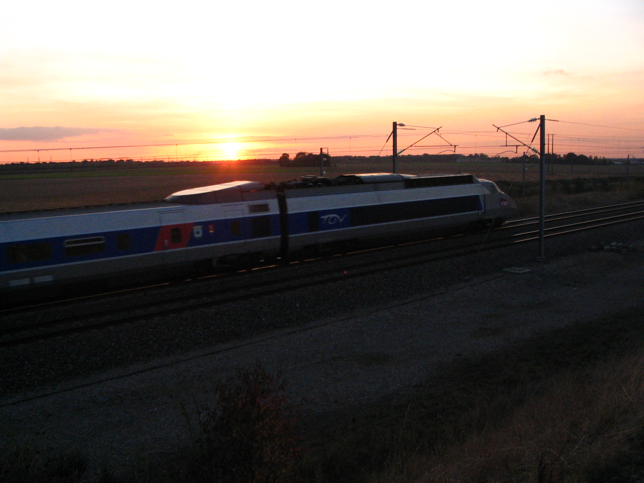 A TGV at the railway junction known as Crisenoy's, in Seine-et-Marne, France, on the LGV Sud-Est.